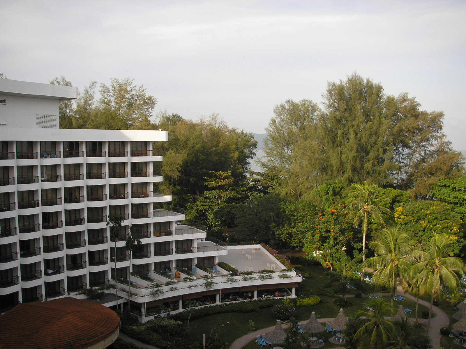 Image of Batu Ferringhi beach in Penang, taken from